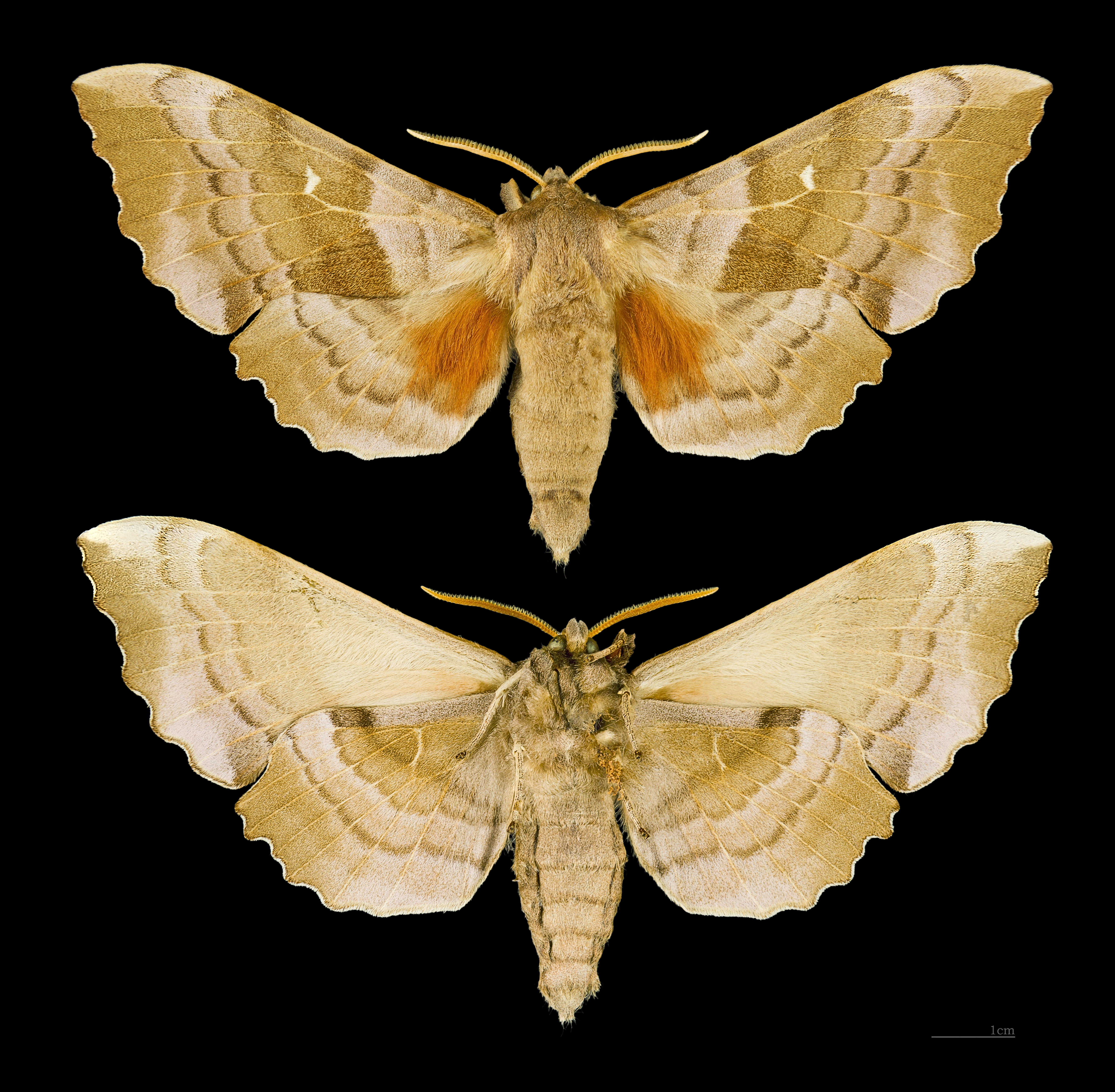 Poplar Hawk-moth - Two views of same specimen